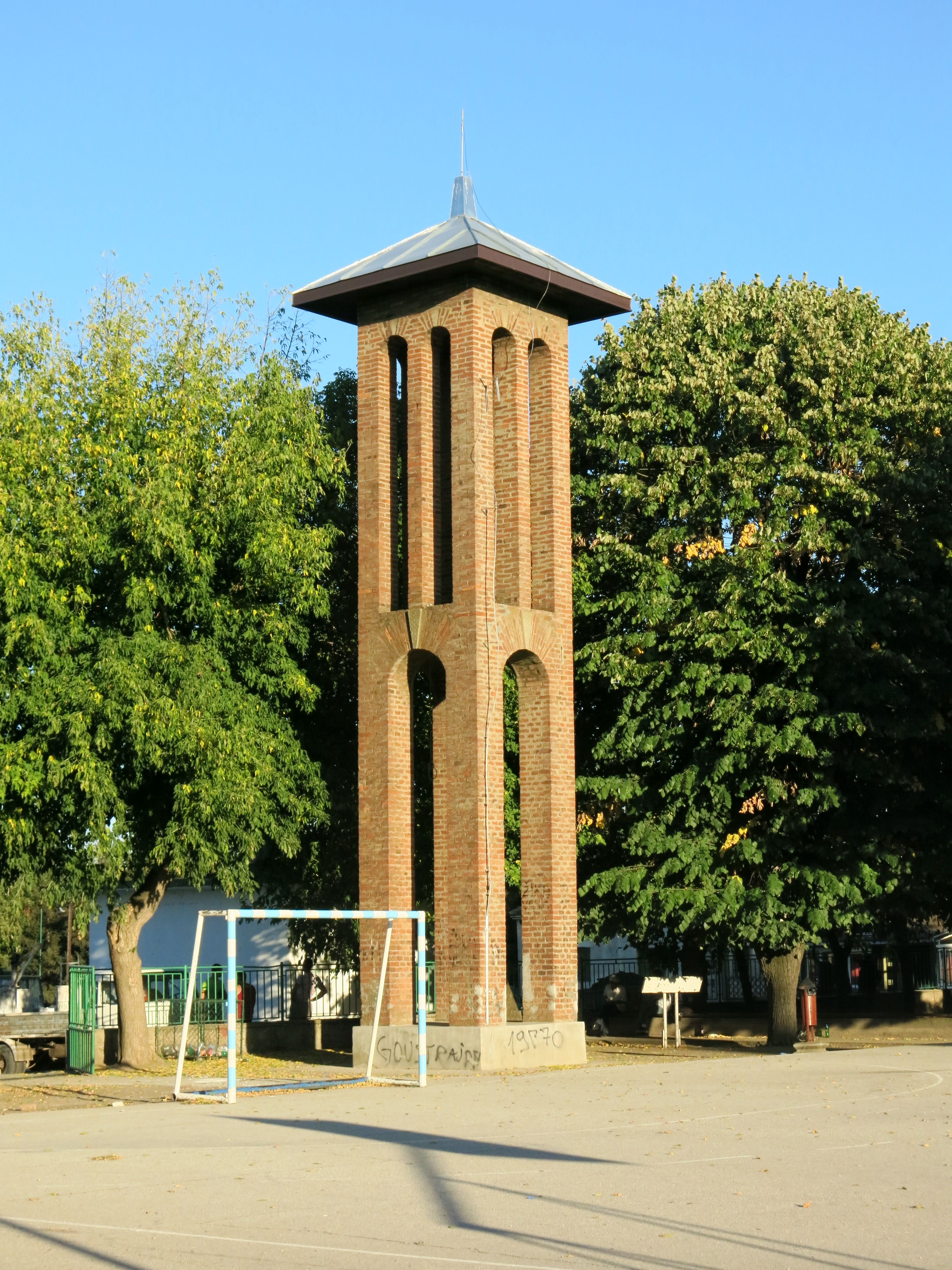 Osipaonica, School belfry